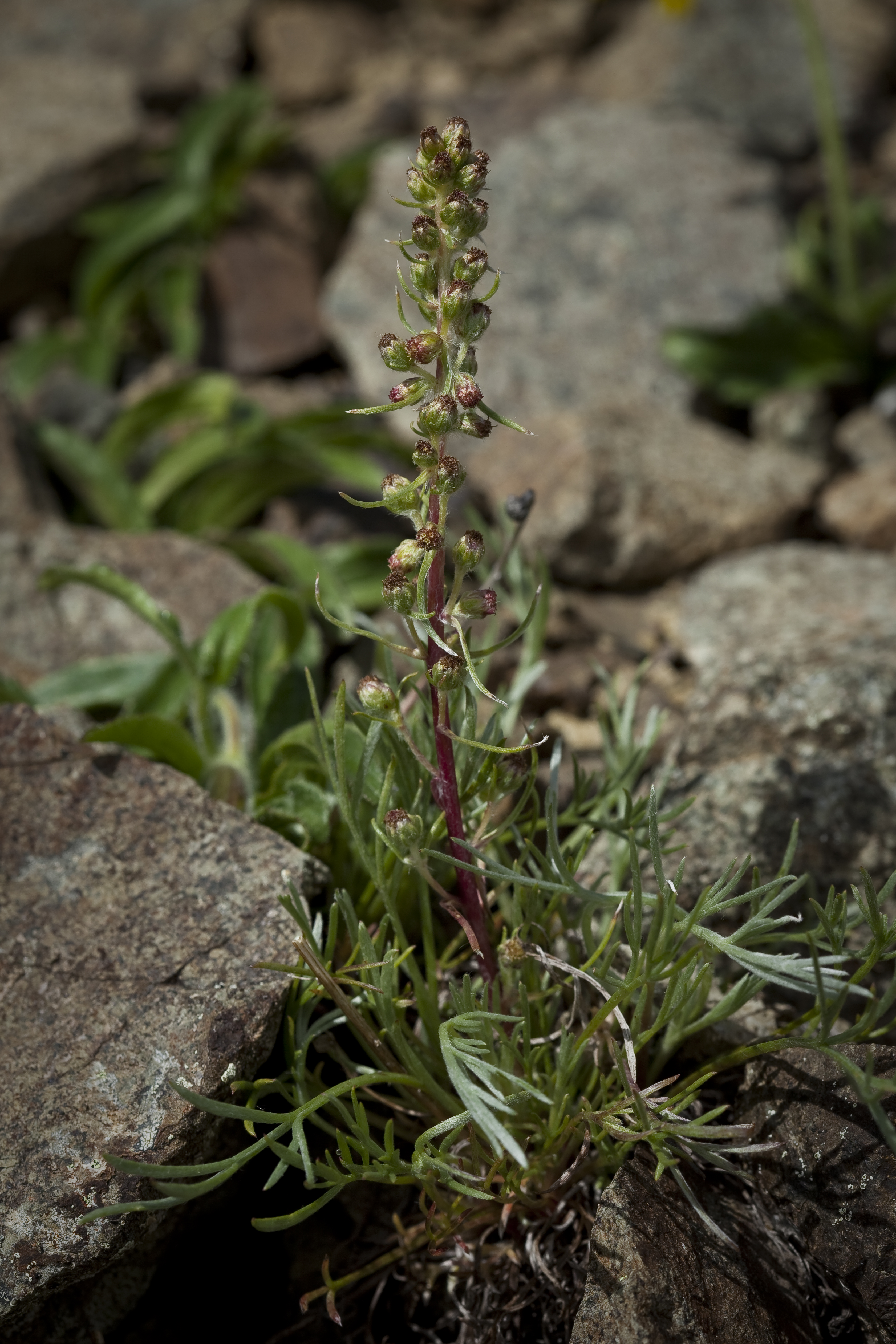 Artemisia furcata, Denali National Park and Preserve, AK, USA